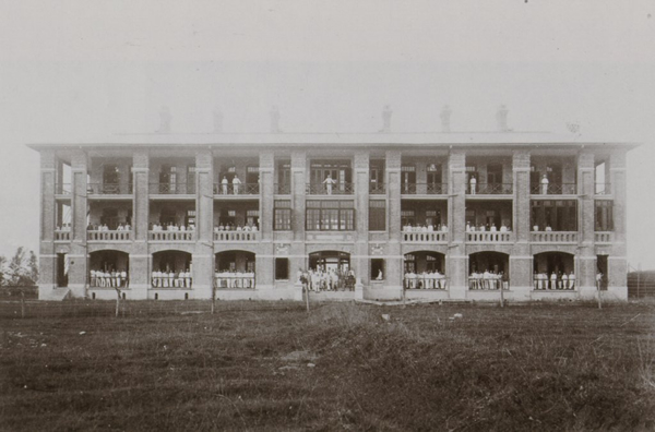 Martin Hall, Lingnan University (Canton, Kwangtung, China)